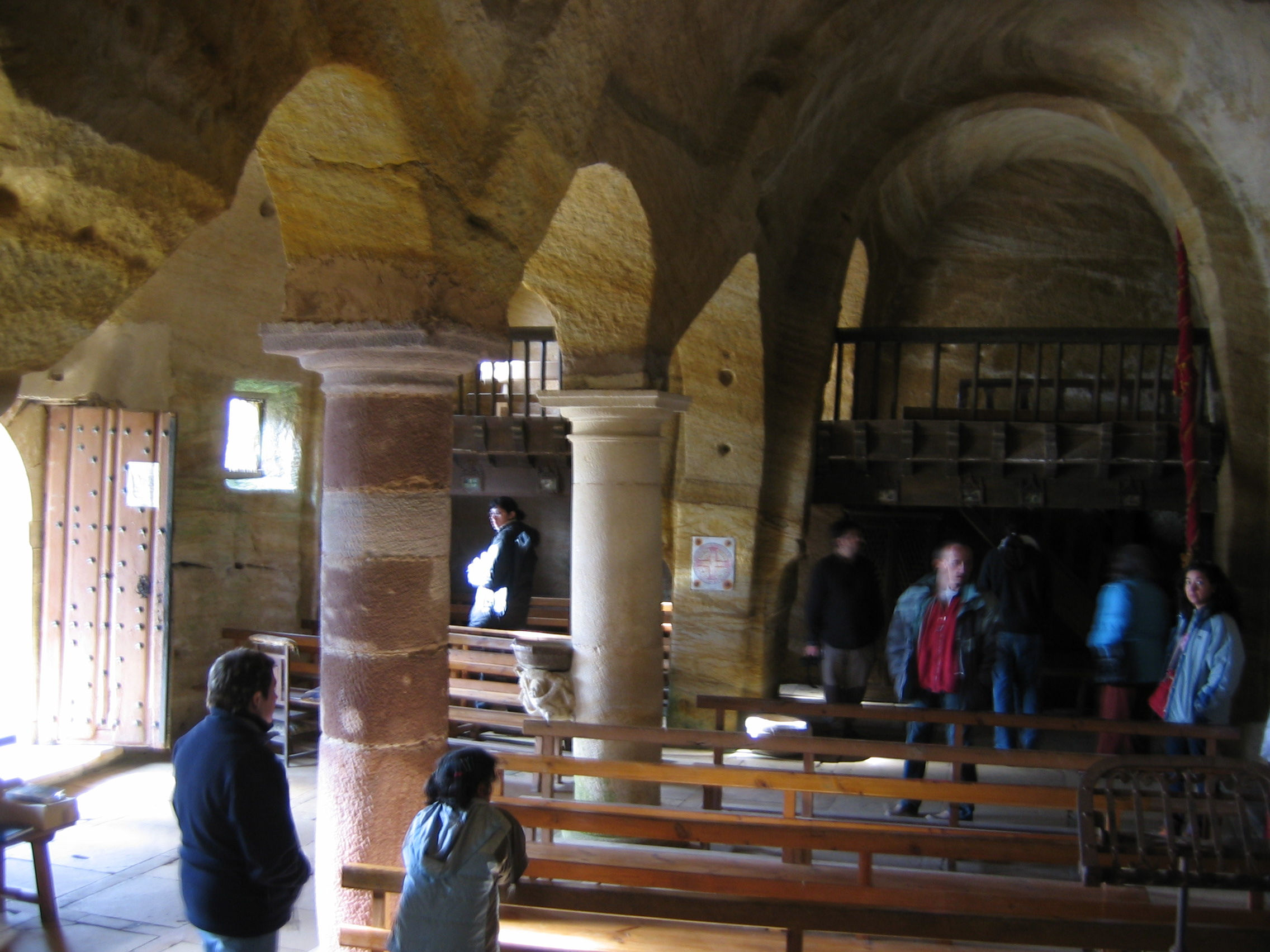 Interior view of the cave chapel of Olleros de Pisuerga (Palencia, Spain). This church is the best example of Spanish eremitic movement. Launched its "work" to the XI or X century by mozarabic people which fleeing from Islam arrived in this area, and dug a first place of prayer, in current sacristy, which had (blinded currently) access door and window in concentric circles functions. Then is increase the construction of the temple performing two craft and a third, already towards the end of the XII century header so it fits of full during the years of the Romanesque in North Palencia hatching. Orientation is abnormal, by imperative of sandstone rock that carved outcrop. The craft has North-South orientation and the door opens to the East. Headers, in turn, are diverted to West, from the axis of its ships. The two made craft simulate possess Vault suggested and not lack even the detail of the transverse arches with pointer; notable carving whose sole function is obviously decorative to accommodate the temple to the tastes of the time in was expanded. The four pilasters which tile craft in four sections more the presbytery, only that underpins the choir at the foot of the temple is original. The other three, Tuscan, are 17th and should replace impairment the rock in those places.